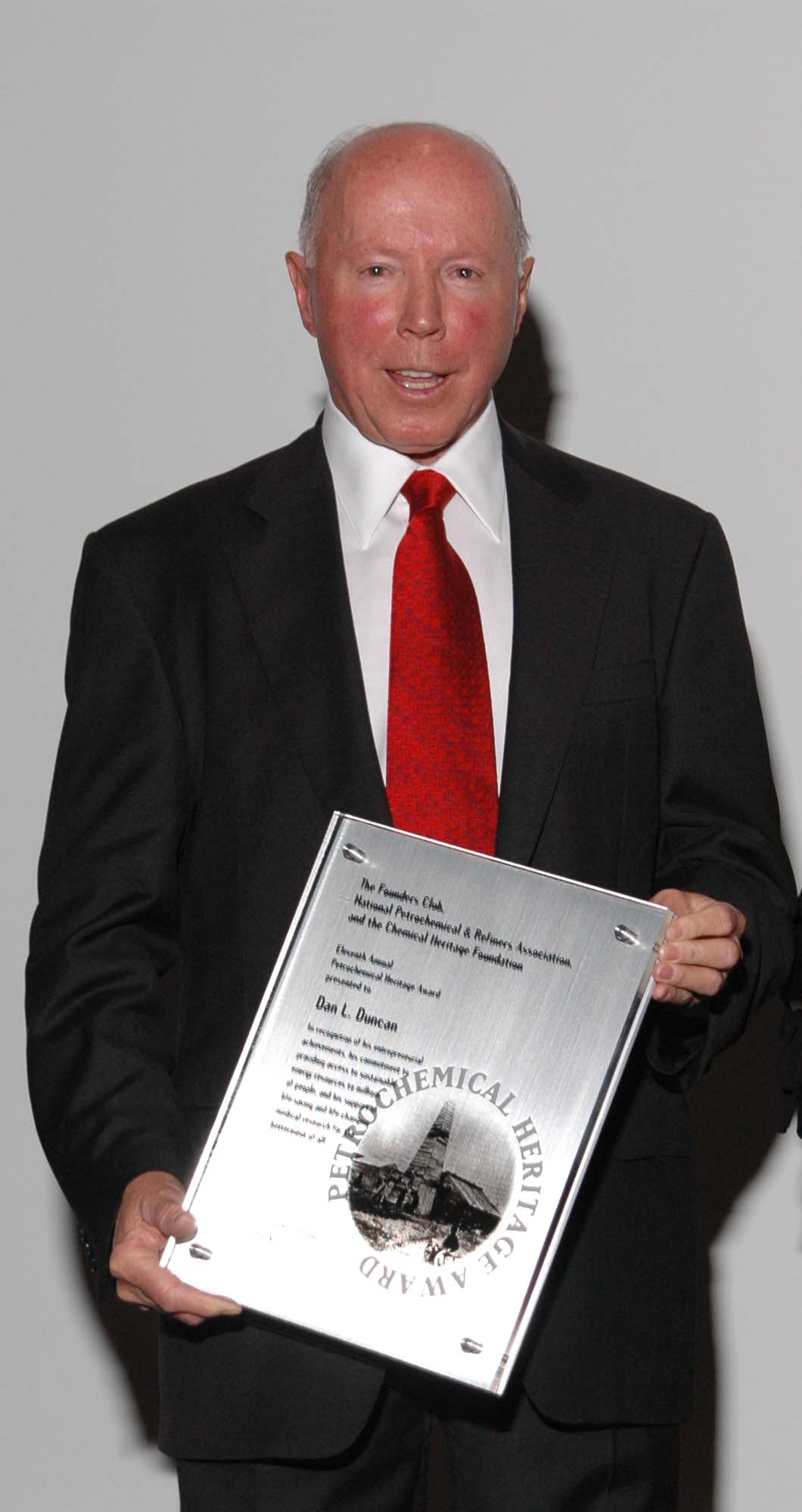 Photograph of Dan Duncan, recipient of the 2007 Petrochemical Heritage Award, at the National Petrochemical Refiners Association (NPRA) International Petrochemical Conference, held 25-27 March 2007 at the San Antonio Convention Center in San Antonio, Texas.